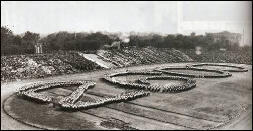 Human letter in Meiji Jingū Kokumin Taiiku Taikai (Meiji Shrine National Sports Competition), 1940 (Koki 2600)